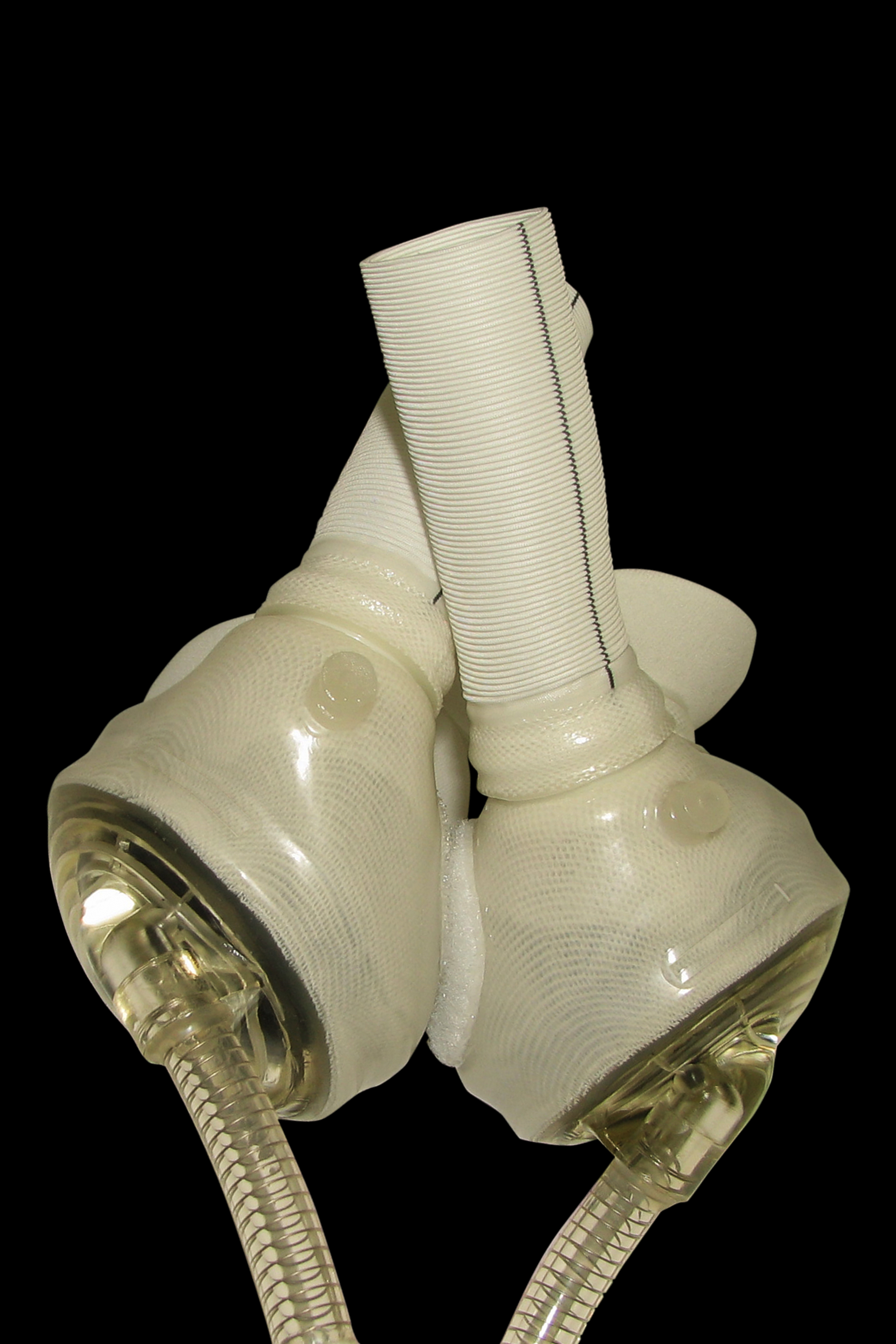 The CardioWest™ temporary Total Artificial Heart